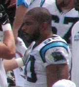 Carolina Panthers players (2008 roster) on Sideline